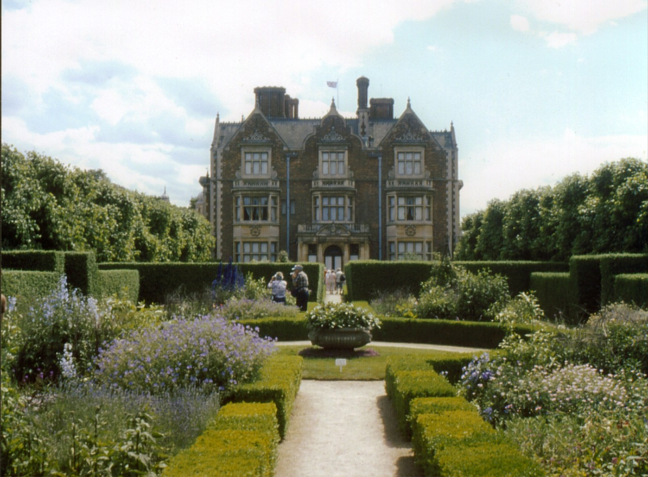 Photo out of the North Garden towards the house.